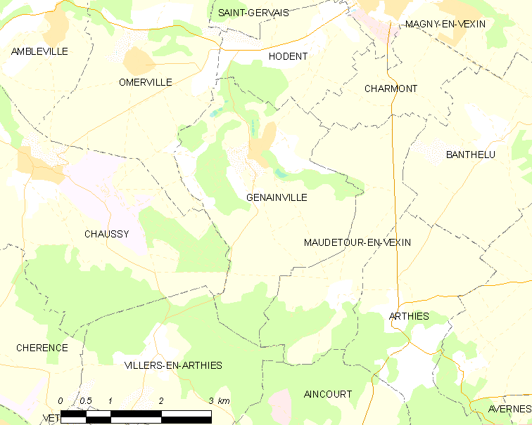 Map of French municipality Genainville